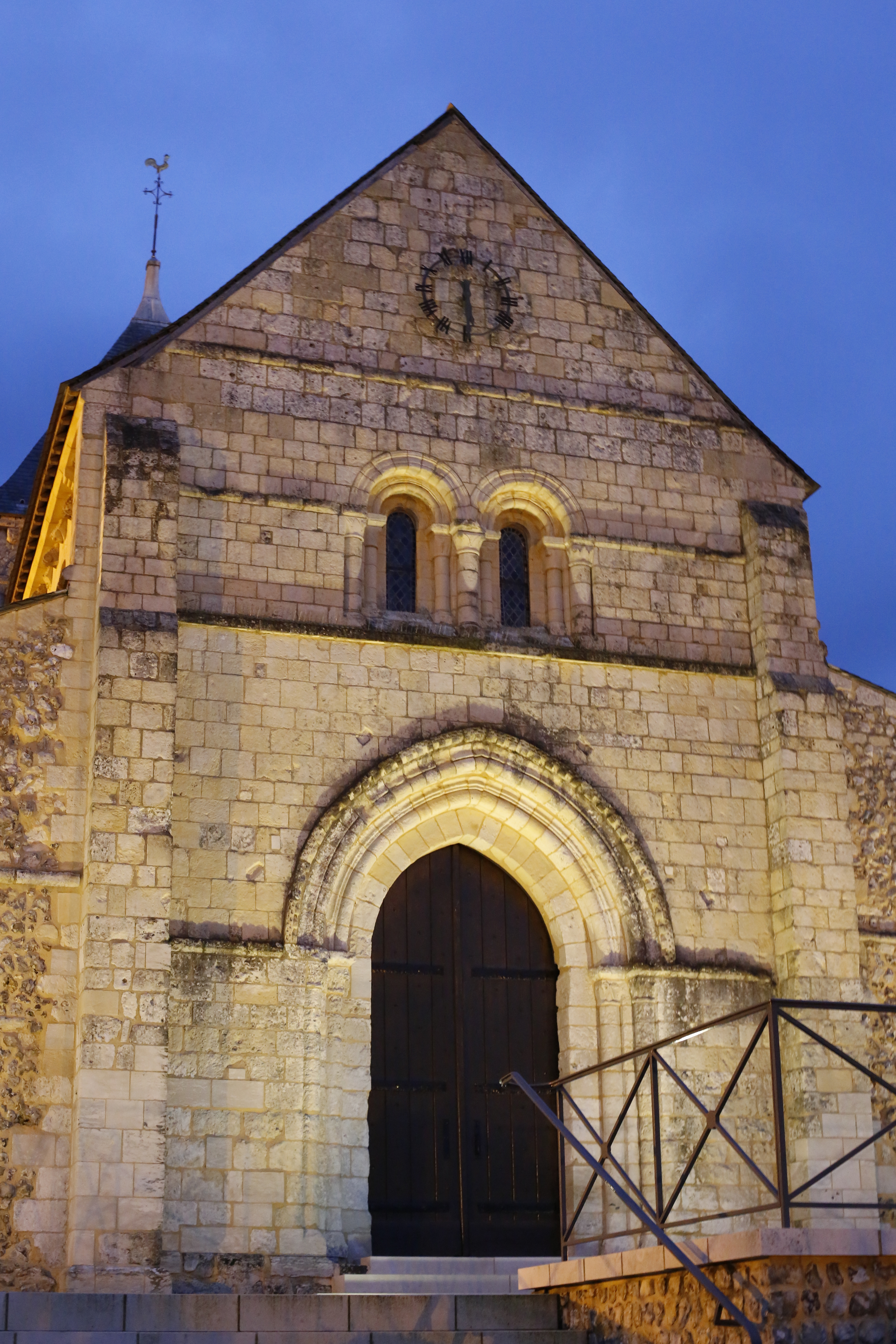 Saint-Germain church in Manéglise.